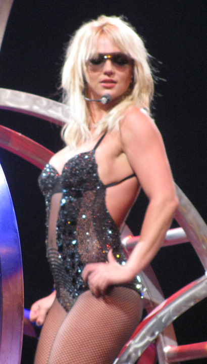 Britney Spears Performing at The O2 Arena in London